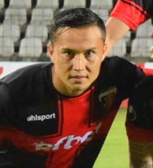 Tajikistani footballer Parvizdzhon Umarbayev